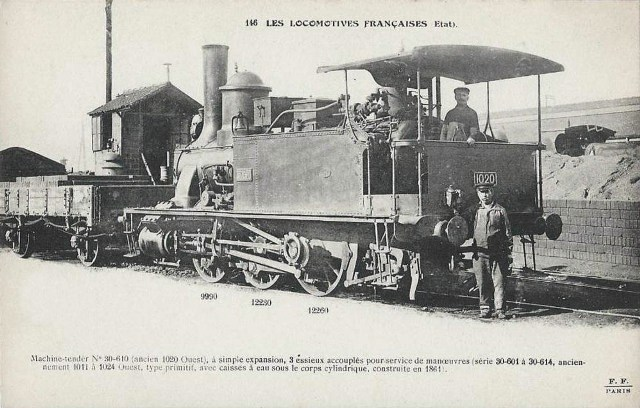 Ouest 030T 1020